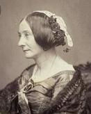 Albumen print photograph of Harriet Moore 1801-1884. British watercolour artist who documented Michael Faraday's life at the Royal Institution.